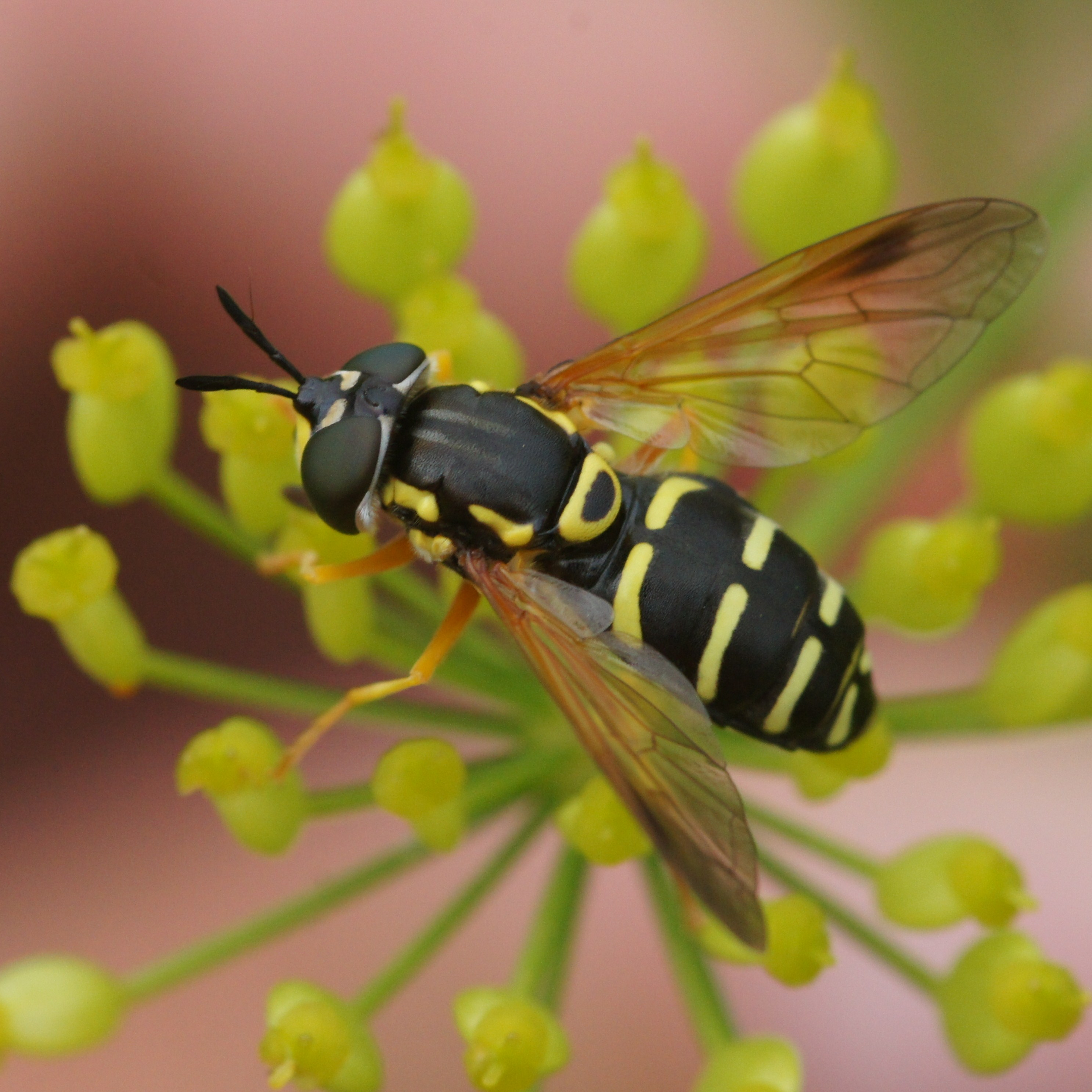 Chrysotoxum festivum (female). Picture taken in Skåne, Sweden.